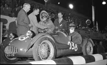 Entry #038 at Mille Miglia in Italia on 1 May 1955 was a Bandini driven by Saverio Rusconi and Giovanni Sintoni.[1]